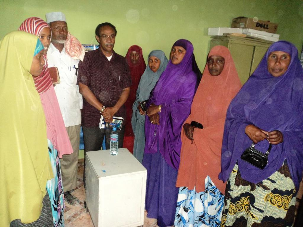 Members of Badhan council district